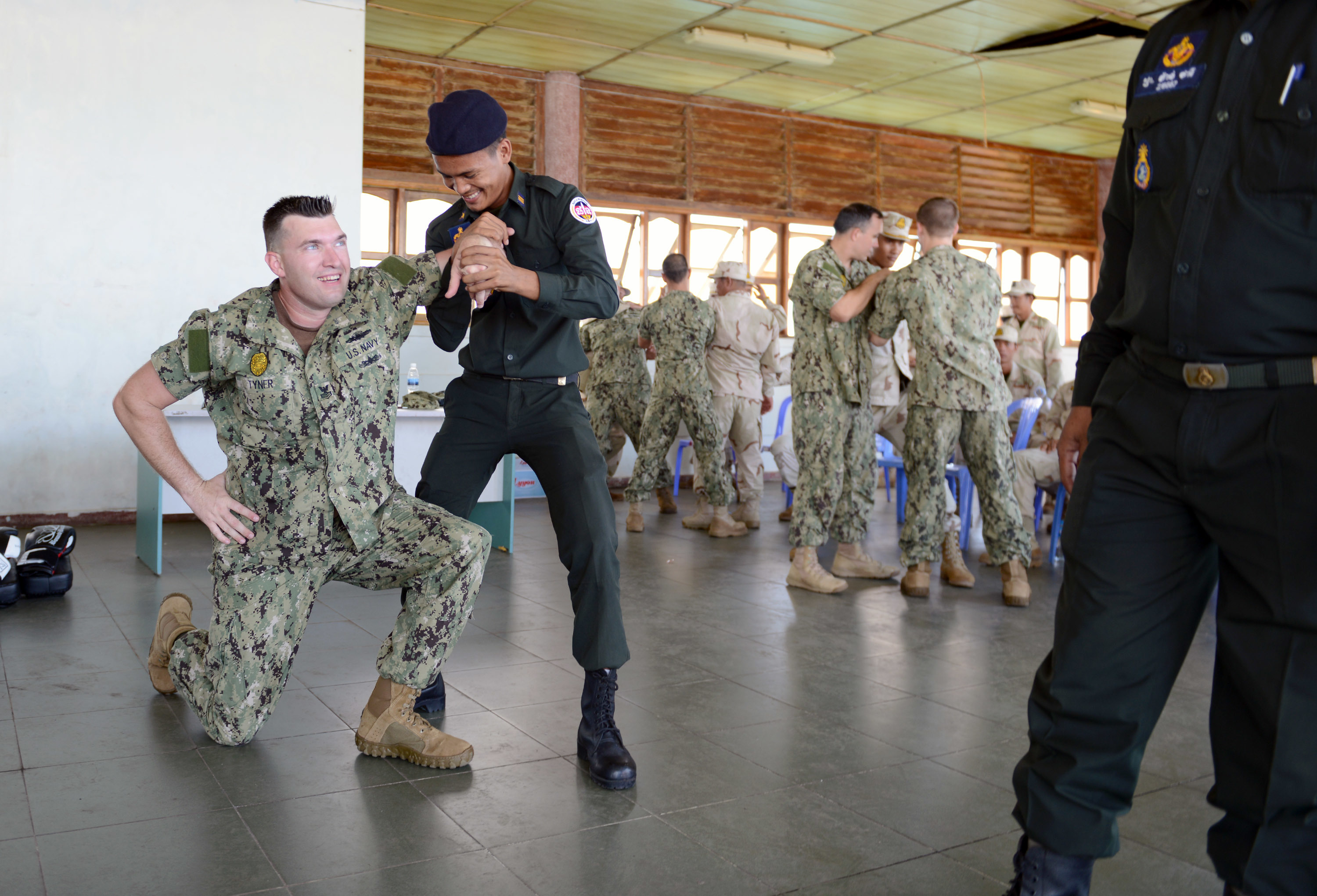 Master-at-Arms 1st Class Christopher Tyner, assigned to Coastal Riverine Group (CRG) 1, Detachment Guam, demonstrates detainment techniques to Royal Cambodia Navy sailors and military police during Cooperation Afloat Readiness and Training (CARAT) Cambodia 2014. In its 20th year, CARAT is an annual, bilateral exercise series with the U.S. Navy, U.S. Marine Corps and the armed forces of nine partner nations including, Bangladesh, Brunei, Cambodia, Indonesia, Malaysia, the Philippines, Singapore, Thailand and Timor-Leste. (U.S. Navy photo by Mass Communication Specialist 1st Class Jay C. Pugh/Released)